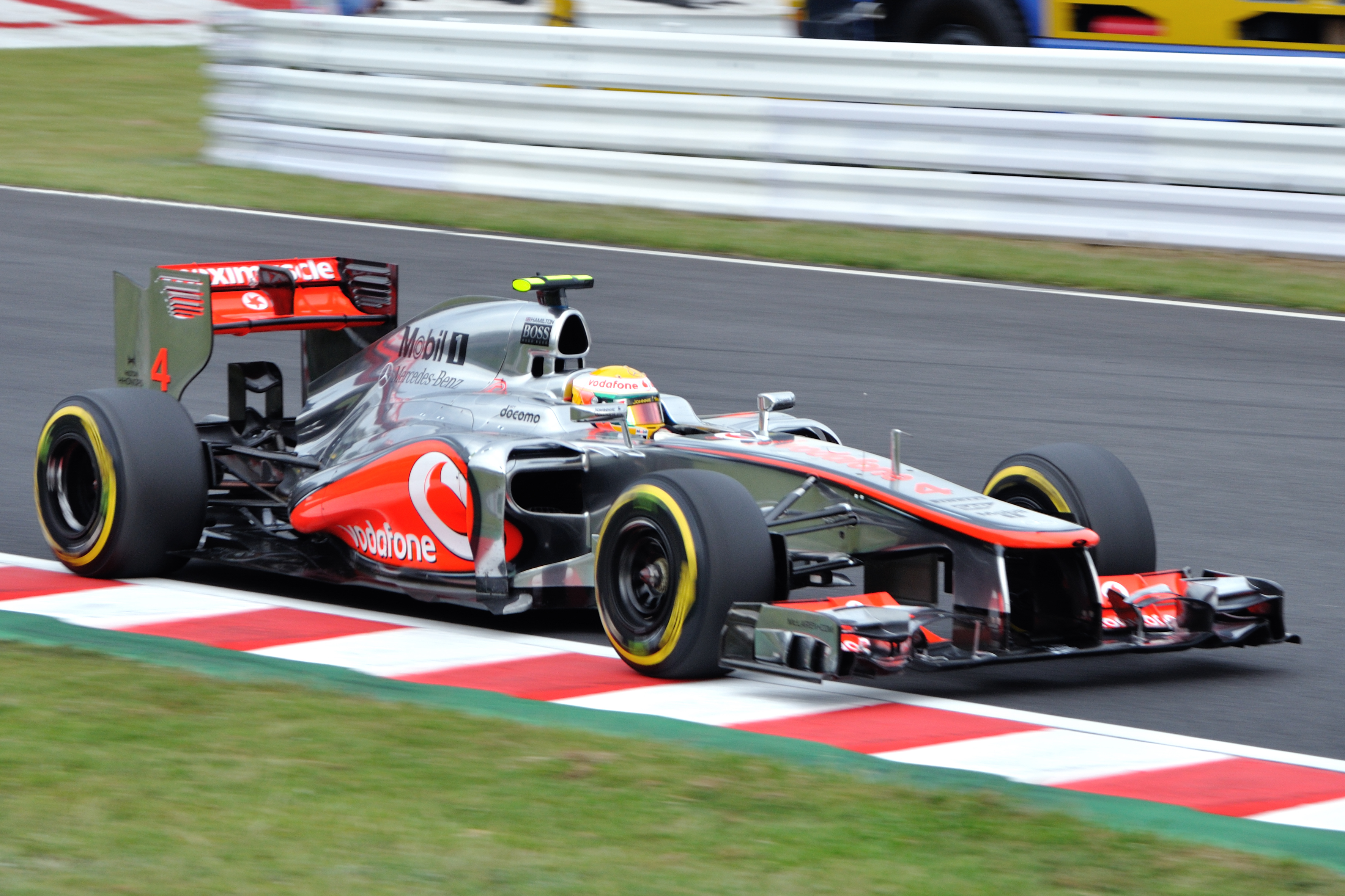 Lewis Hamilton accelerates away from the hairpin during a qualifiying sessions for the 2012 Formula 1 Japanese Grand Prix. Lewis could only set the ninth fastest time.